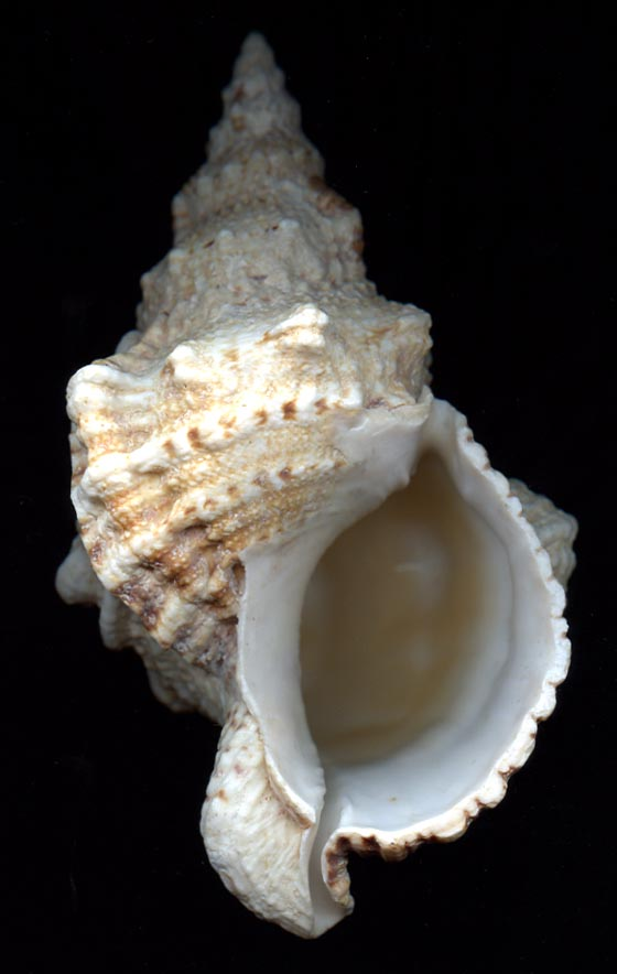 A shell of Tutufa bubo, the giant frog shell, 9 inches long